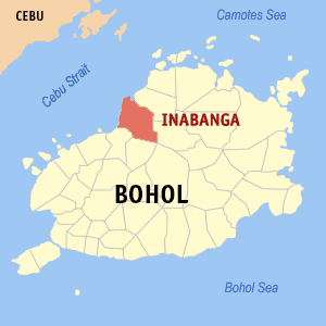 Map of Bohol showing the location of Inabanga